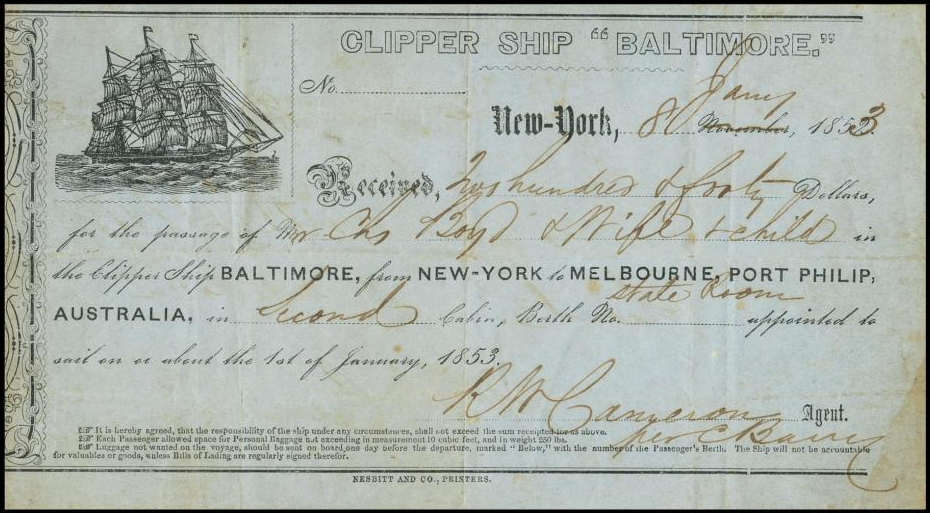 A passenger ticket issued to Chas. Boyd, his wife and child for passage on board the clipper ship BALTIMORE sailing in January 1853. The Boyd's were traveling to Melbourne from New York in a second class cabin state room. This ticket was issued in New York, in the United States on 8 January 1853, at a cost of two hundred and forty dollars. Australian Pioneer Line, aka Pioneer Line of Australian Packets Agent: R.W. Cameron, Esq., of 116 Wall Street, one of the proprietors and agent of the line Sailed for Melbourne from New York: Baltimore, 1,300 tons, January, 1853. [1] New York to Melbourne, Port Philip, Australia Splendid fast ship Baltimore to sail January 10 to Port Philip and Sydney.[2] The fine clipper ship Baltimore 700 tons, F.B. Northup, Commander. Melbourne-Callao shuttle. Having been constructed for a Baltimore liner, with a spacious saloon and lofty 'tween decks' her accommodations for cabin and intermediate passengers are of a superior description. The Argus, Melbourne, Vic.: 1853 [3] Baltimore ship, 700 tons burthen, R.D. Conn, master, 1852. Described as a first class New York built ship.[4]